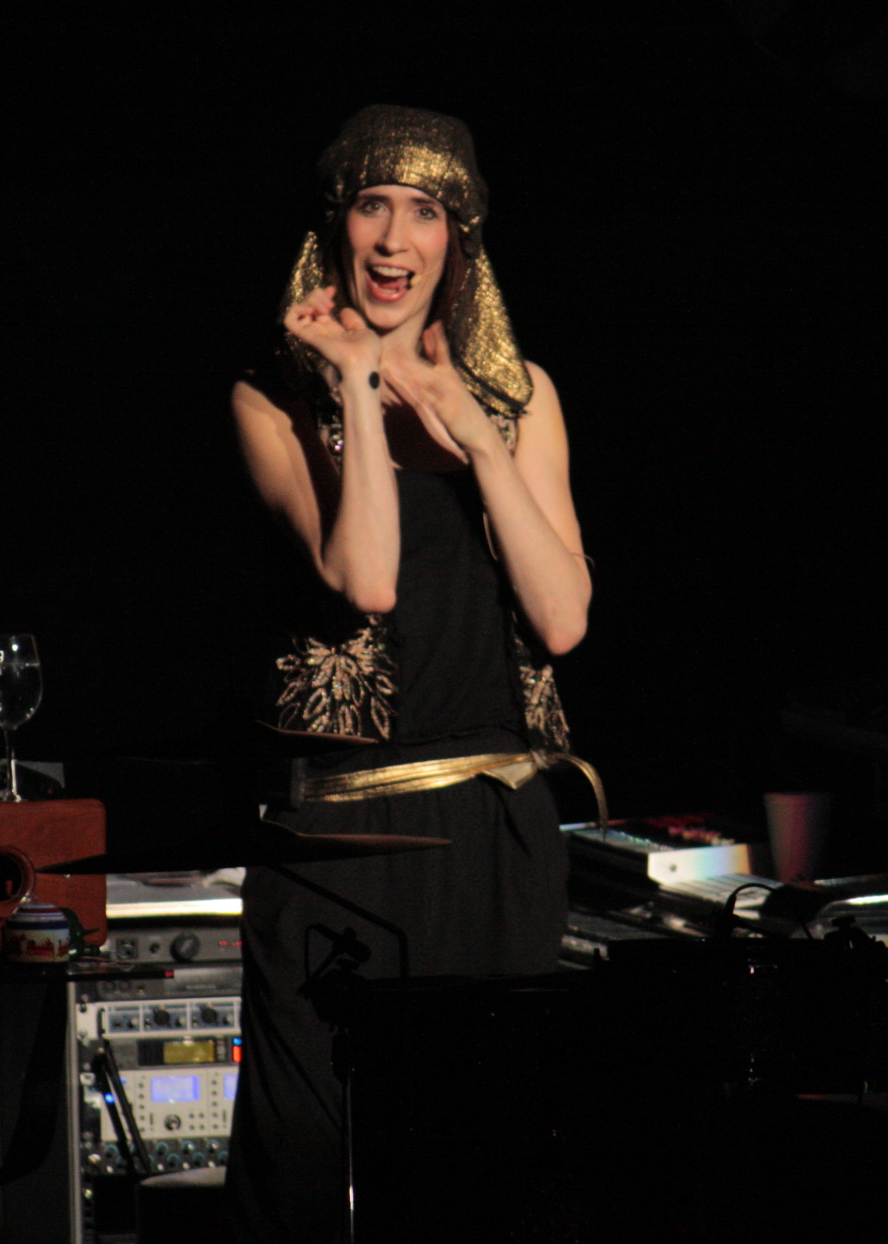 Imogen Heap getting ready to perform her song "First Train Home" at the Hammerstein Ballroomin New York City on May 25, 2010.